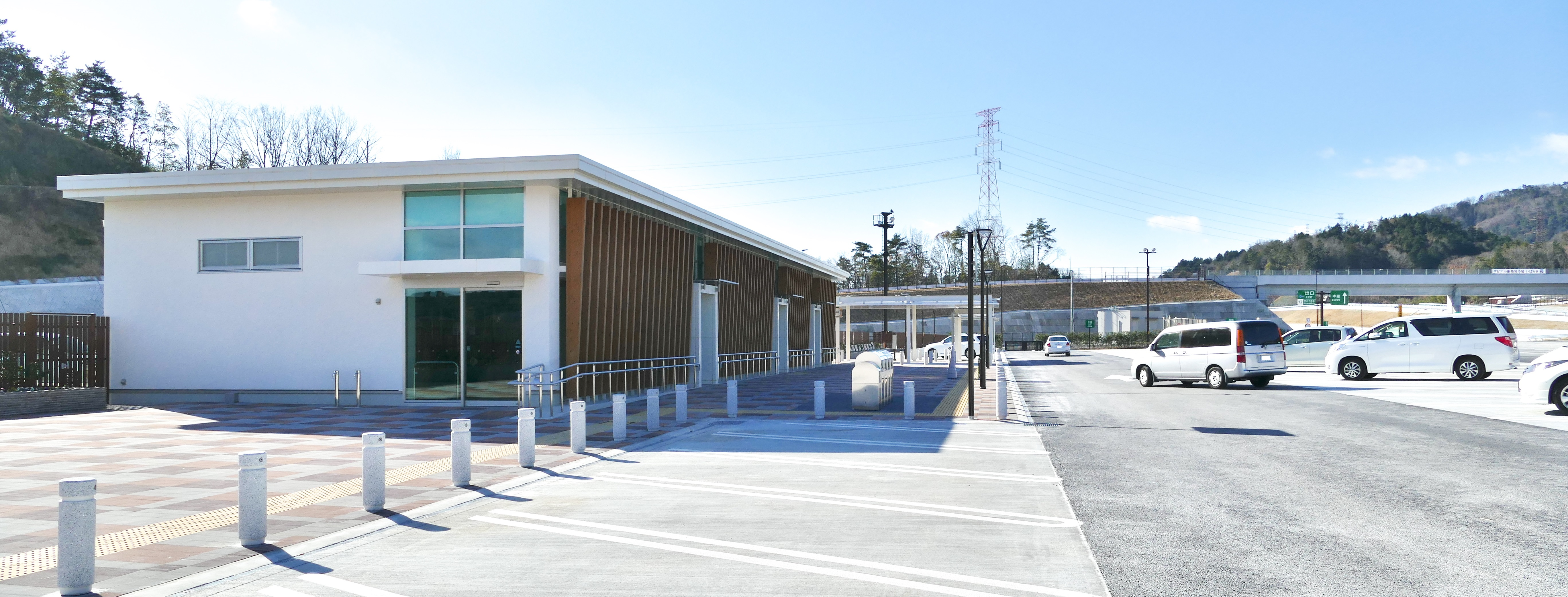 Ibaraki-Sendaiji Inter Change for Kobe ,Osaka prefecture,Japan